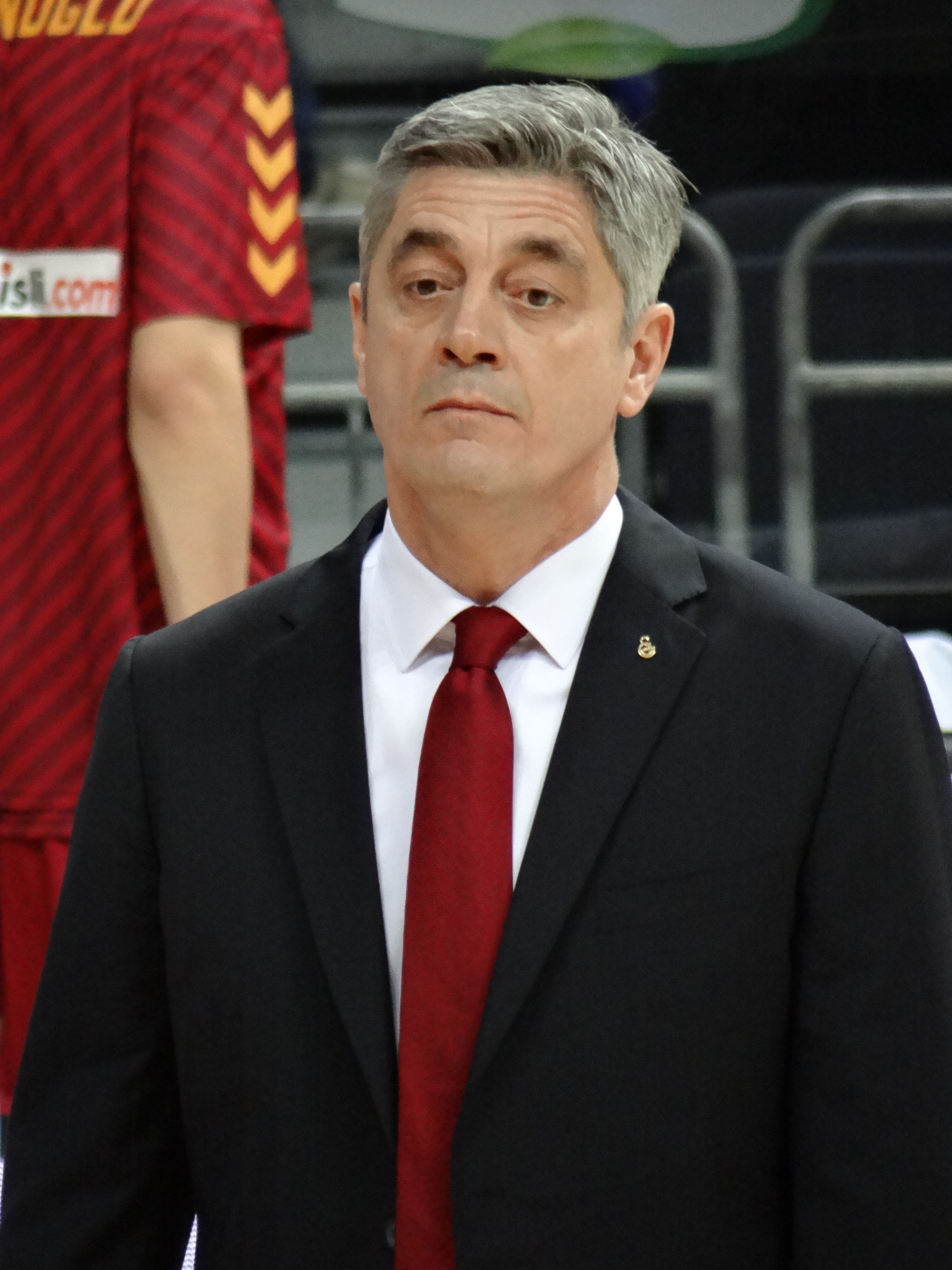 Oktay Mahmuti Fenerbahçe Men's Basketball vs Galatasaray Men's Basketball TSL 20180304